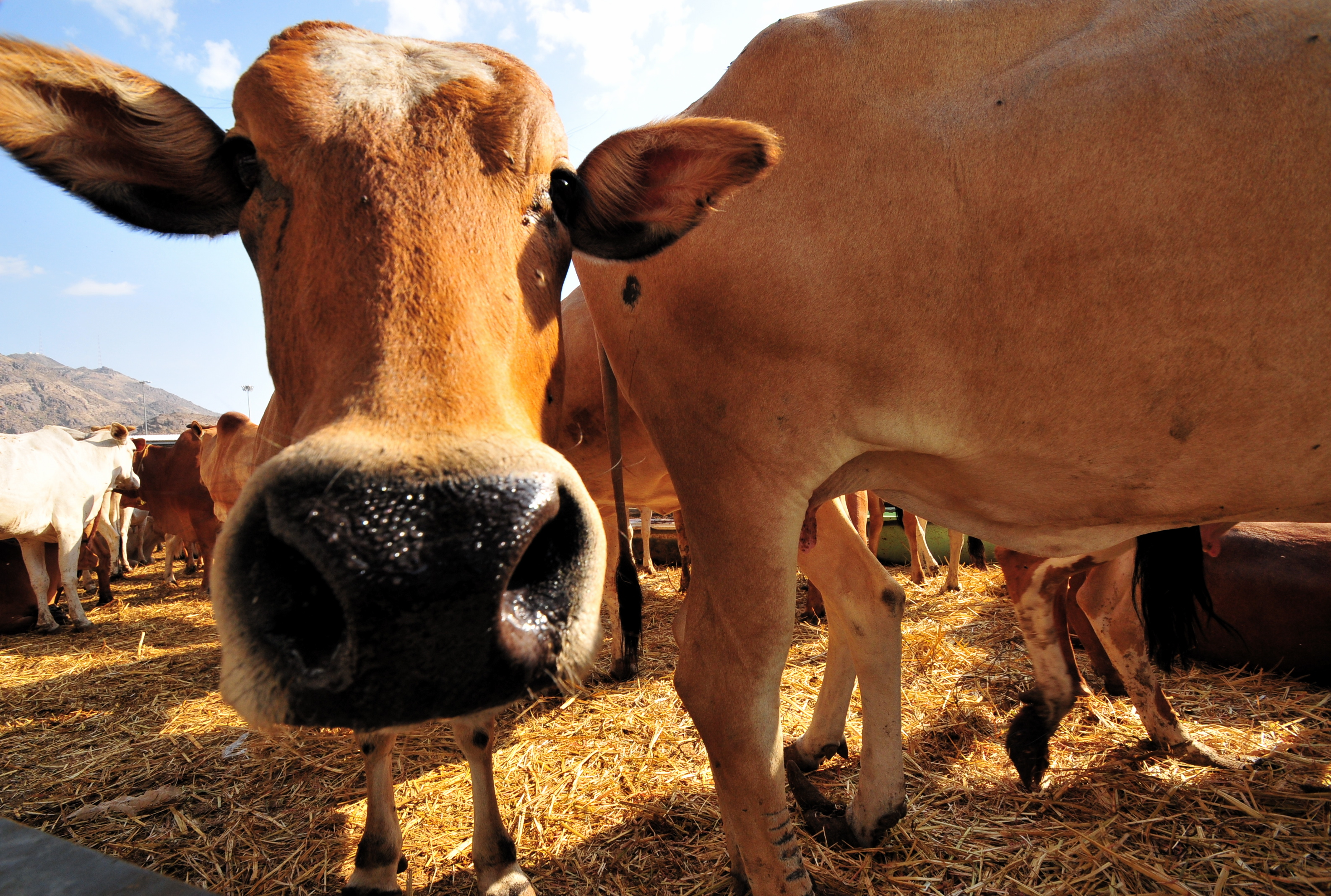 Up to 750,000 camels, cows, sheep and goats are being prepared for sacrifice in Mina. Photo by Fadi El Binni